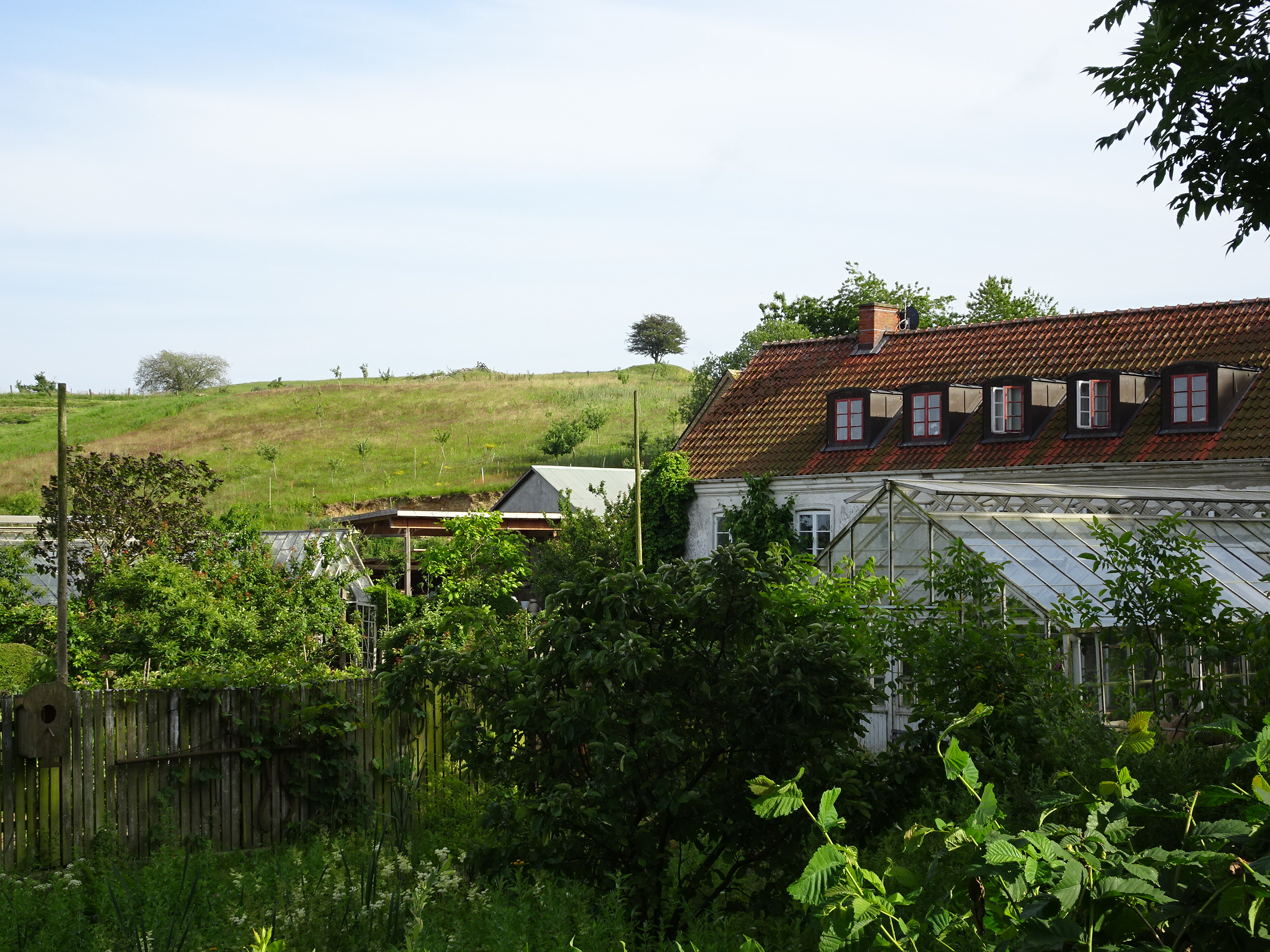 Mandelmanns trädgårdar (gardens), located in Rörum, Simrishamn, Sweden